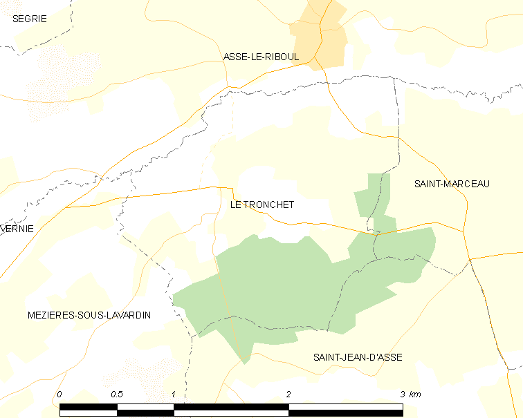 Map of French municipality